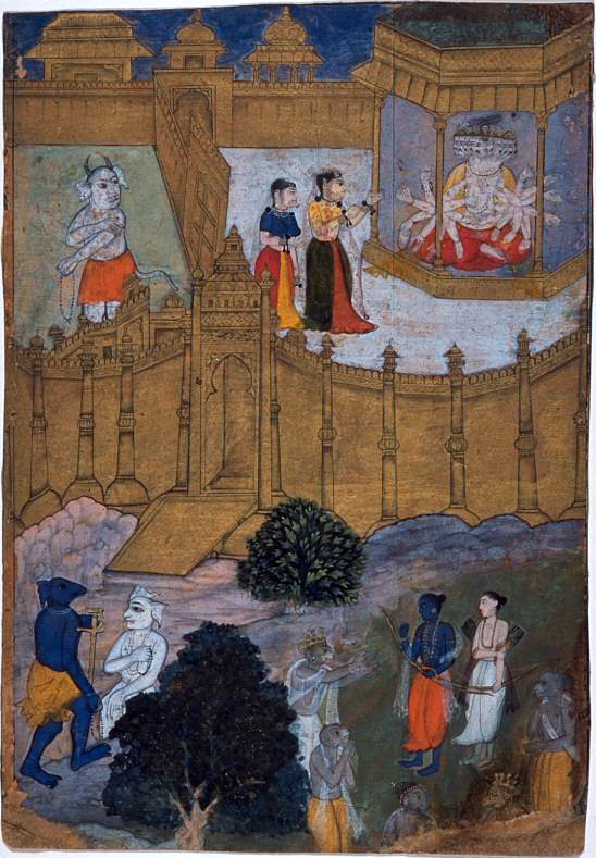 Object ID: 2003.4 Designation: Mandodari approaches her husband, the demon king Ravana, while Prince Rama and his allies convene outside the palace, from a manuscript of the Ramayana (Life or Rama) Date: 1595-1605 Medium: Opaque watercolors and gold on paper Place of Origin: Northern India Style or Ware: Mughal Credit Line: Gift of the Connoisseurs' Council with additional funding from Fred M. and Nancy Livingston Levin, the Shenson Foundation, in memory of A. Jess Shenson Label: After finally locating his abducted wife, Rama plans an assault on the island fortress of Lanka, where she has been imprisoned. As the threat of battle looms, several of Ravana's associates attempt to persuade the demon king to return Sita to her husband. Among them is Mandodari, Ravana's principal wife. In this painting Mandodari is accompanied by another woman, probably a maidservant, as she approaches Ravana in his palace chambers. Rama, identified by his blue skin, stands near his white-skinned brother Lakshmana in the lower-right-hand portion of this painting. The pair are joined by several of their monkey allies. Three of Ravana's demon guards patrol the palace and its grounds. The earliest surviving illustrated manuscript of the Ramayana from South Asia was commissioned by the Mughal emperor Akbar (reigned 1556-1605) shortly after he ordered the text of the epic to be translated into Persian. The manuscript to which this page, as well as the one to your right, belonged is one of two early Ramayanas that were produced for members of the Mughal court. The manuscript's patron is believed to have been Maharaja Bir Singh Deo (reigned 1605-1627), ruler of the central Indian kingdom of Orchcha. Stylistic continuities between surviving pages of the manuscript and works produced in the imperial Mughal ateliers indicate that Bir Singh Deo employed some of the same artists. On display: no Collection: PAINTING Dimensions: H. 10 1/2 in x W. 7 1/4 in, H. 26.7 cm x W. 18.4 cm Department: SA